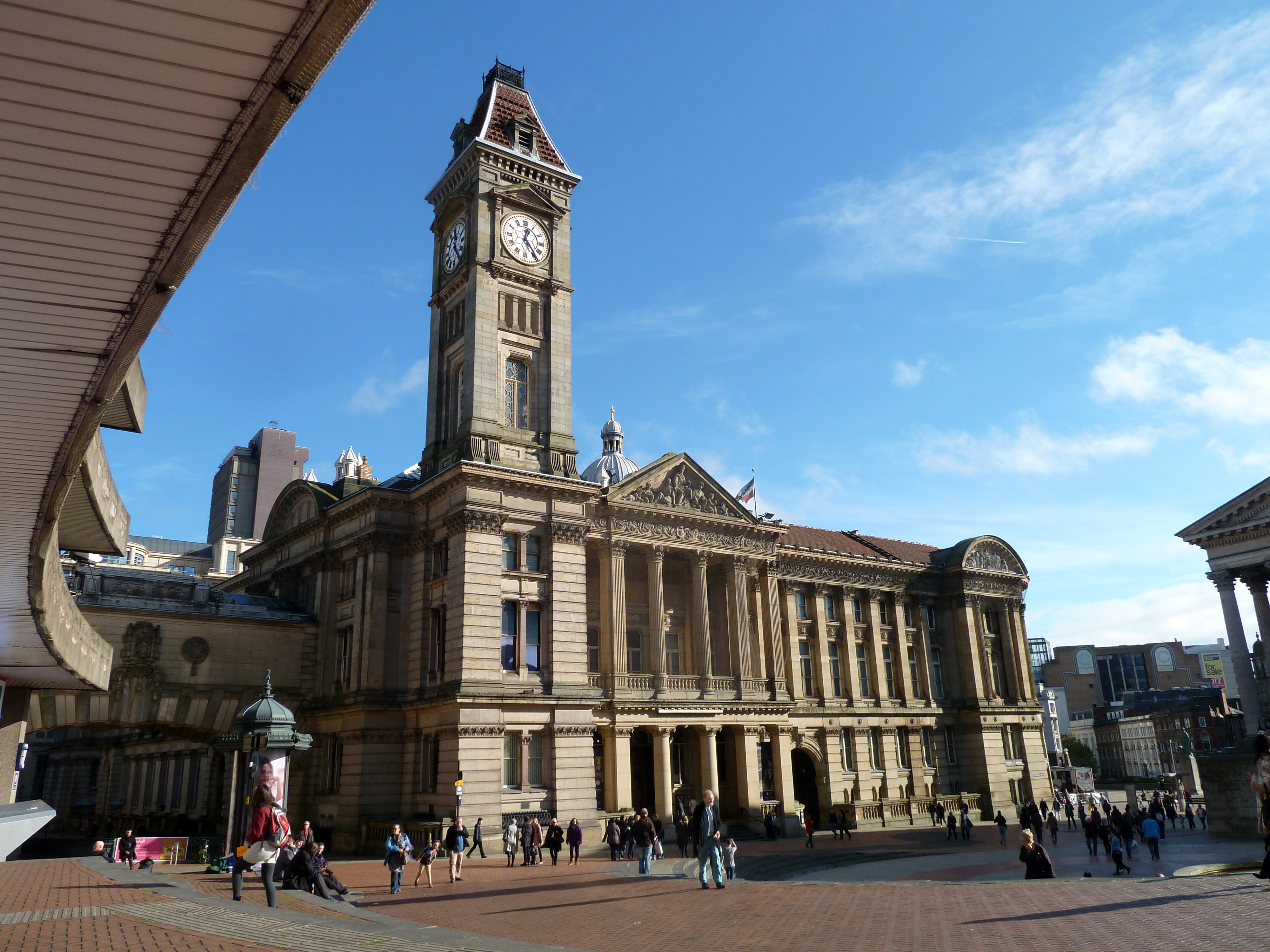 Birmingham Museum and Art Gallery, photographed from Birmingham Central Library in Chamberlain Square